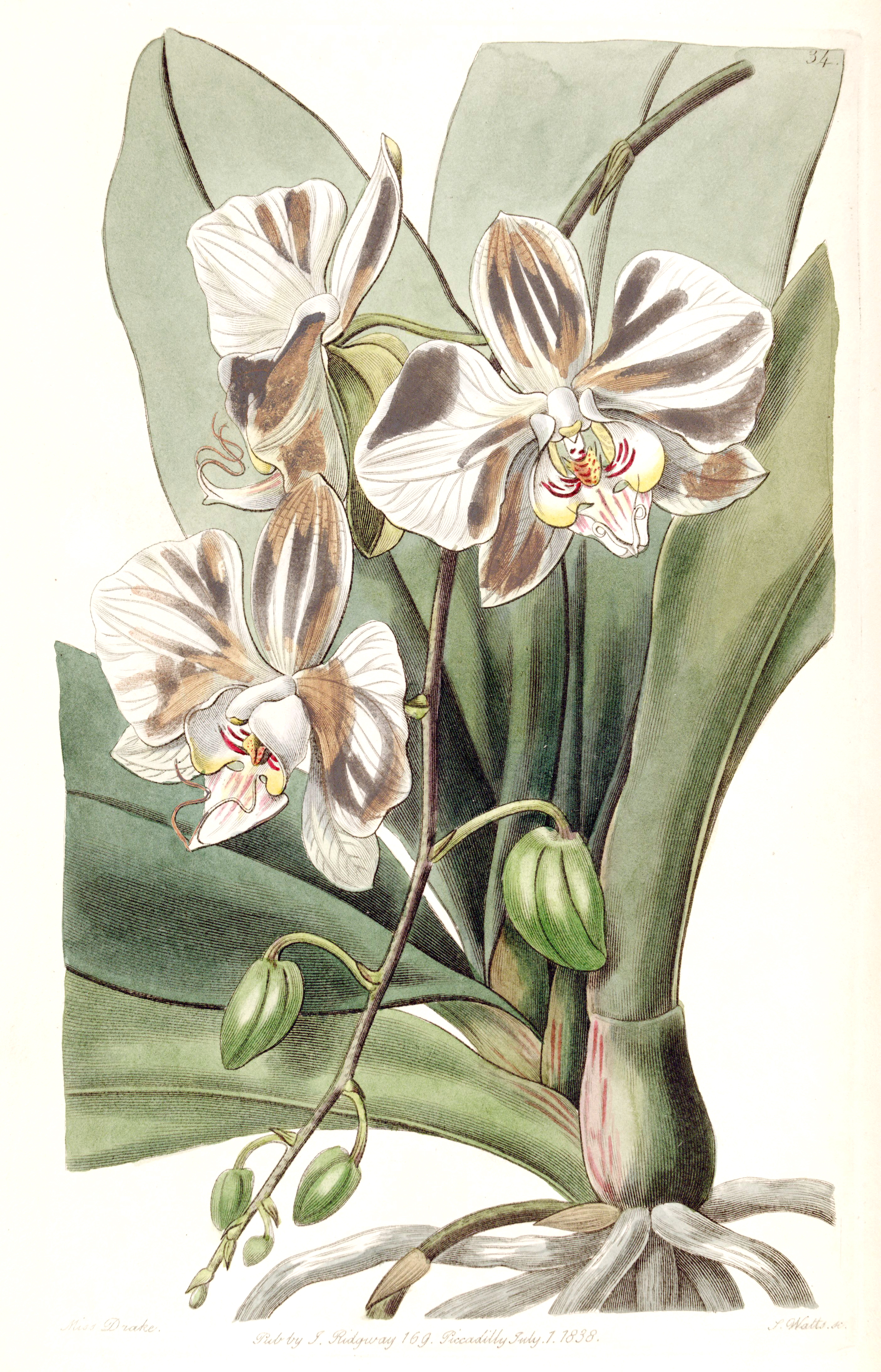 Phalaenopsis aphrodite subsp. aphrodite (as syn. Phalaenopsis amabilis Lindl. (1838), nom. illeg.)